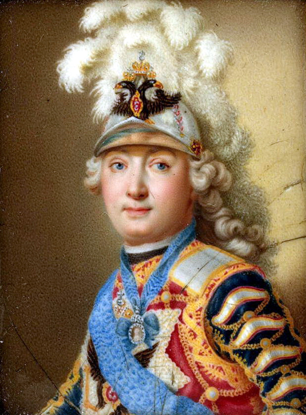 Portrait of count Grigory Orlov (1734-1783). Exhibited at the Hermitage Museum (Emeritage)